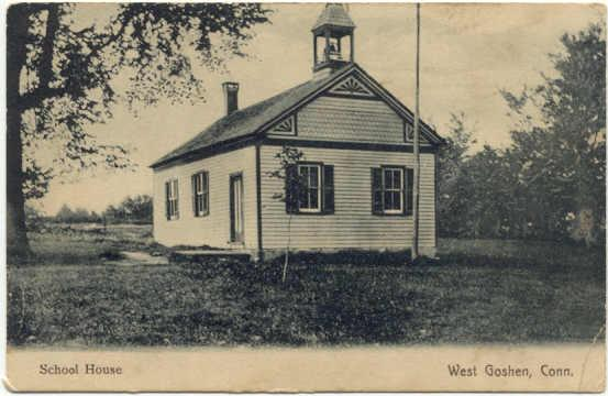 Postcard: Schoolhouse, West Goshen, Connecticut, postmarked 1911 "Old schoolhouse, Goshen, CT postmarked 1911"